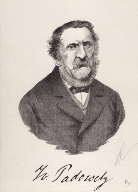 Croatian composer Ivan Padovec